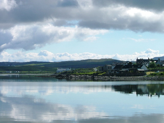 Bowmore. View due east from the pier at Bowmore